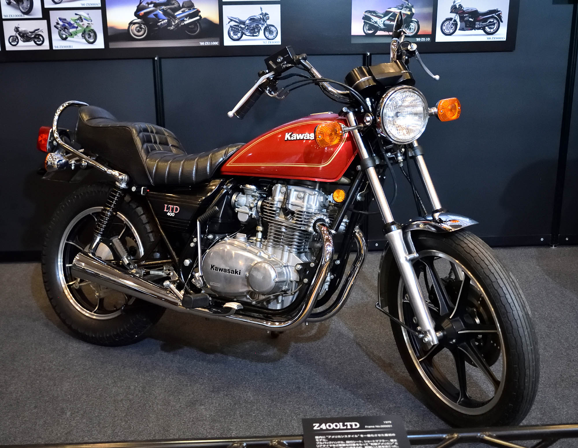 Kawasaki Z400 LTD, 1979